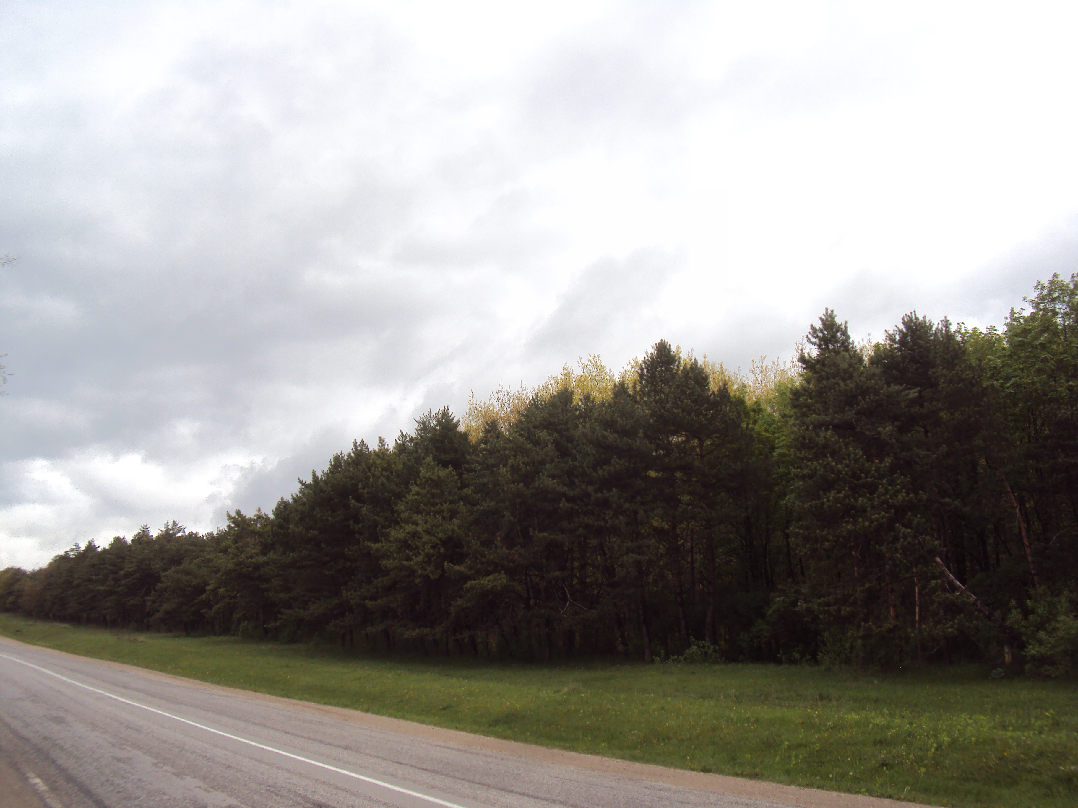 Forest plantations of pine and Crimean pine (tract Mount Ring), Kislovodsk